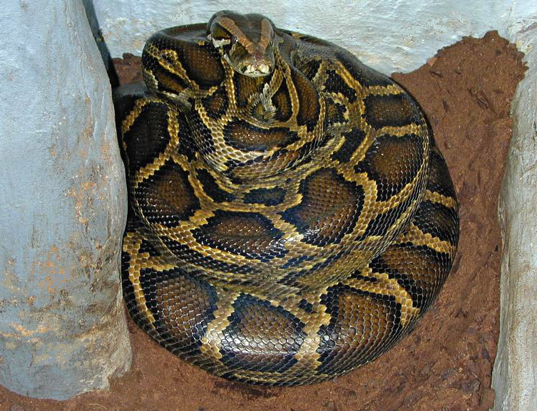 Brooding female Python bivittatus with 21 fertilized eggs. Additional information: Size of the female: 3,6 m, weight before egg deposition: 26 kg, weight after egg deposition: 22 kg, age: 20 Photo donated by